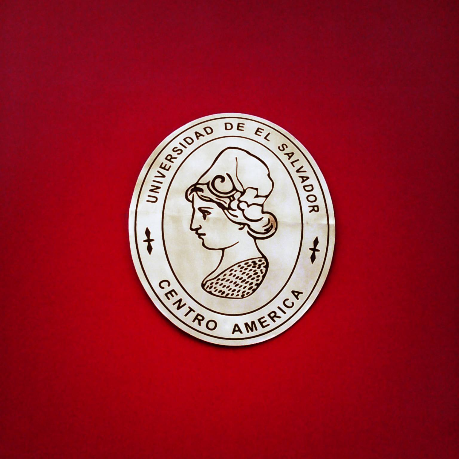 Plate at the main entrance with the emblem of the UES.